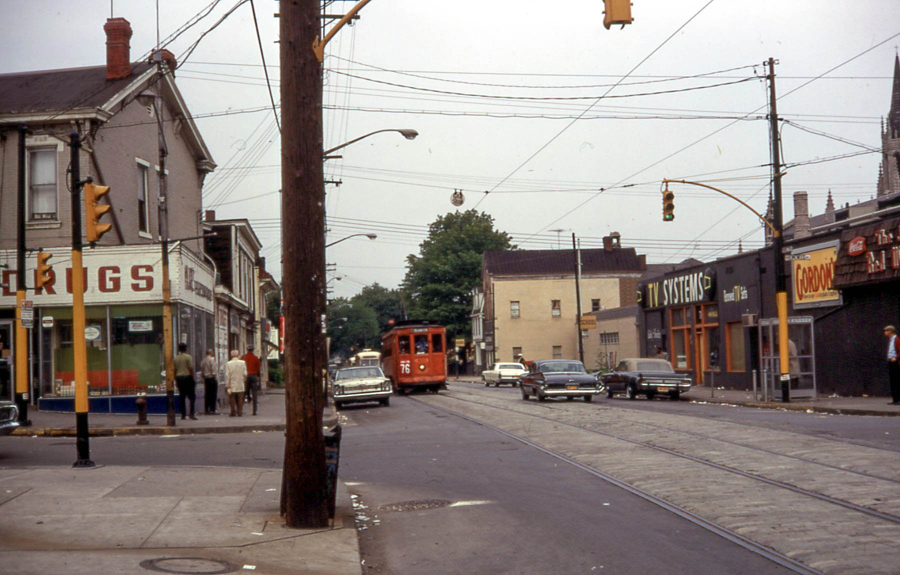 19680526 19 PAT M454 1636 1646 Hamilton Ave. @ Homewood Ave.